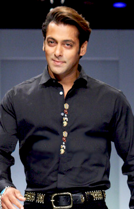 Indian actor Salman Khan walking the ramp for designer Sanjana John, Wills India Fashion Week (WIFW), New Delhi.